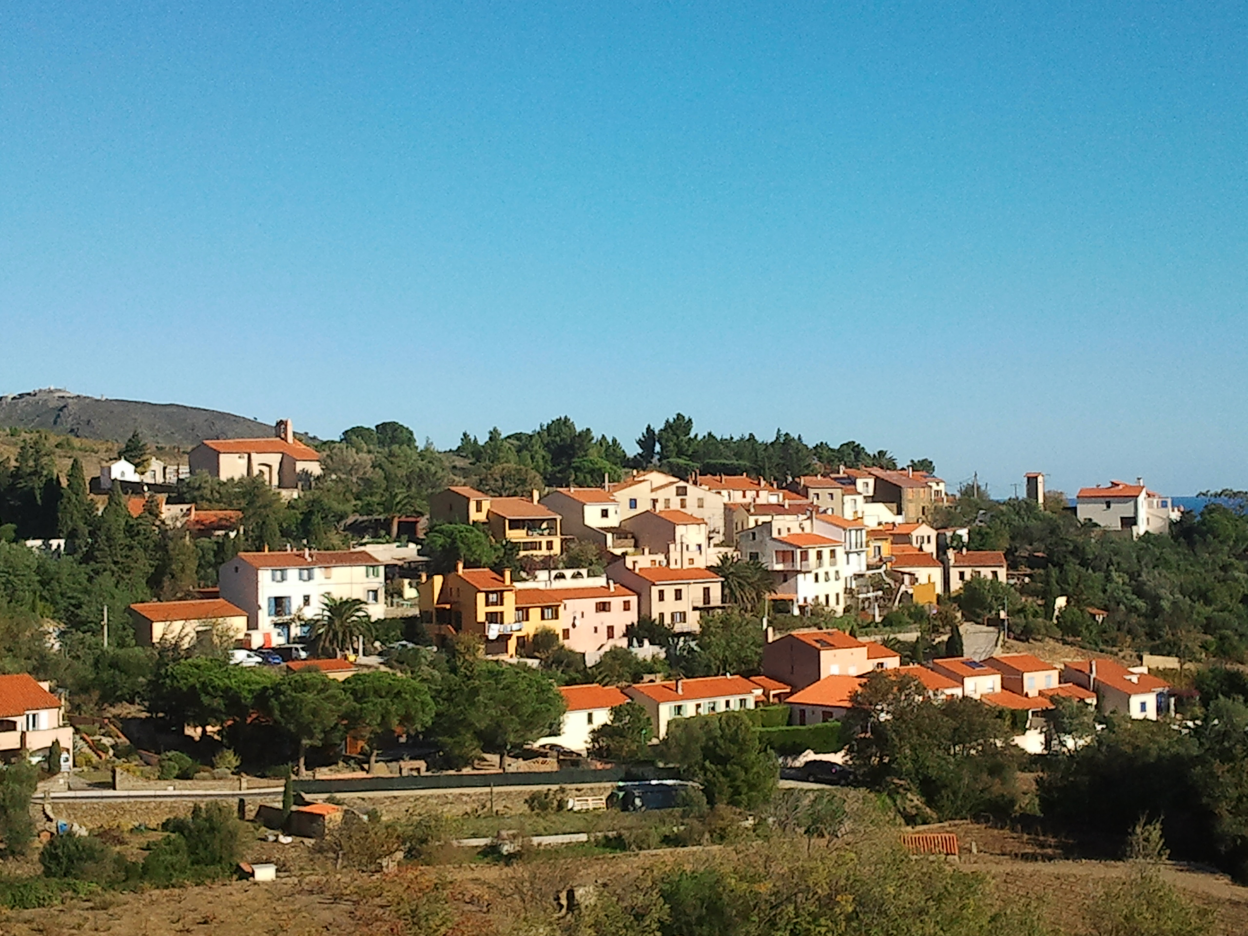 The village of Cosprons